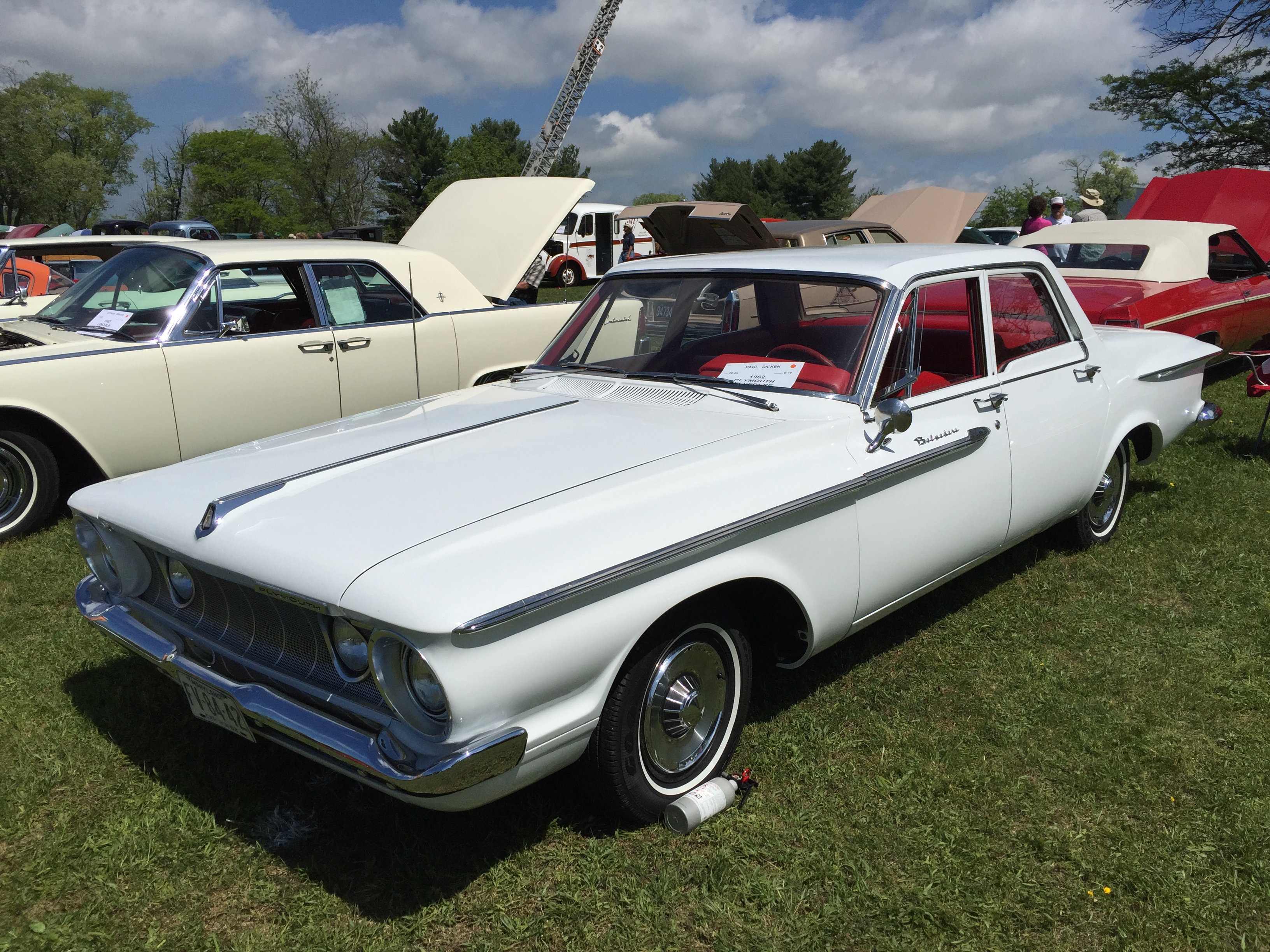 1962 Plymouth Belvedere four-door sedan finished in white with red interior. First year that the full-size Plymouths were "downsized" to more compact outside dimensions. Photographed at 2015 Shenandoah Antique Automobile Club of America (AACA) meet.